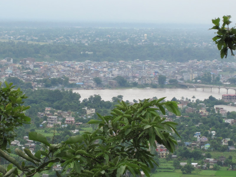 Gaindakot Town and Narayanghat from the Maula Kalika hilltop